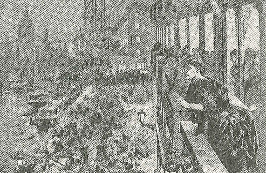 Contemporary newspaper illustration showing the fatal chaos at the public appearance by opera singer Kristina Nilsson in Stockholm, September 23, 1885 (the so called "Kristina Nilsson-olyckan")